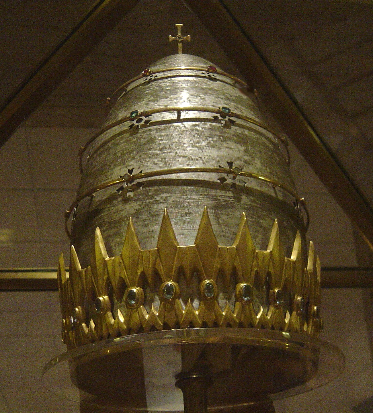 Pope Paul VI's Coronation Tiara, now in the Crypt of The Basilica of the National Shrine of the Immaculate Conception.